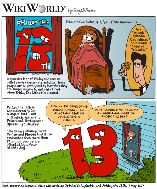 WikiWorld comic based on articles about Triskaidekaphobia and Friday the 13th